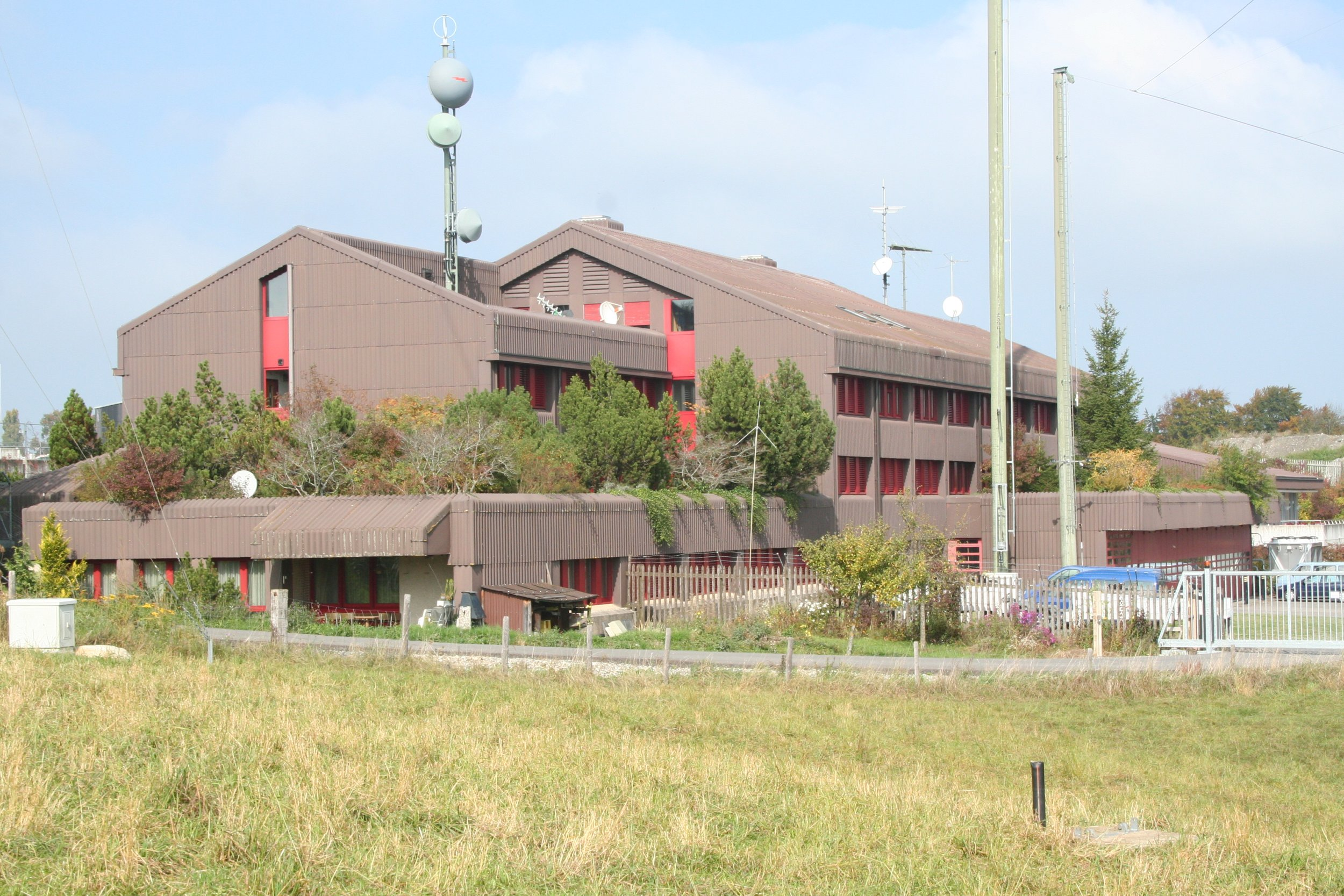 Interception station in Zimmerwald in Switzerland, part of the Onyx interception system of the Swiss army. 46°53′12.46″N 7°28′41.41″E / 46.8867944°N 7.4781694°E